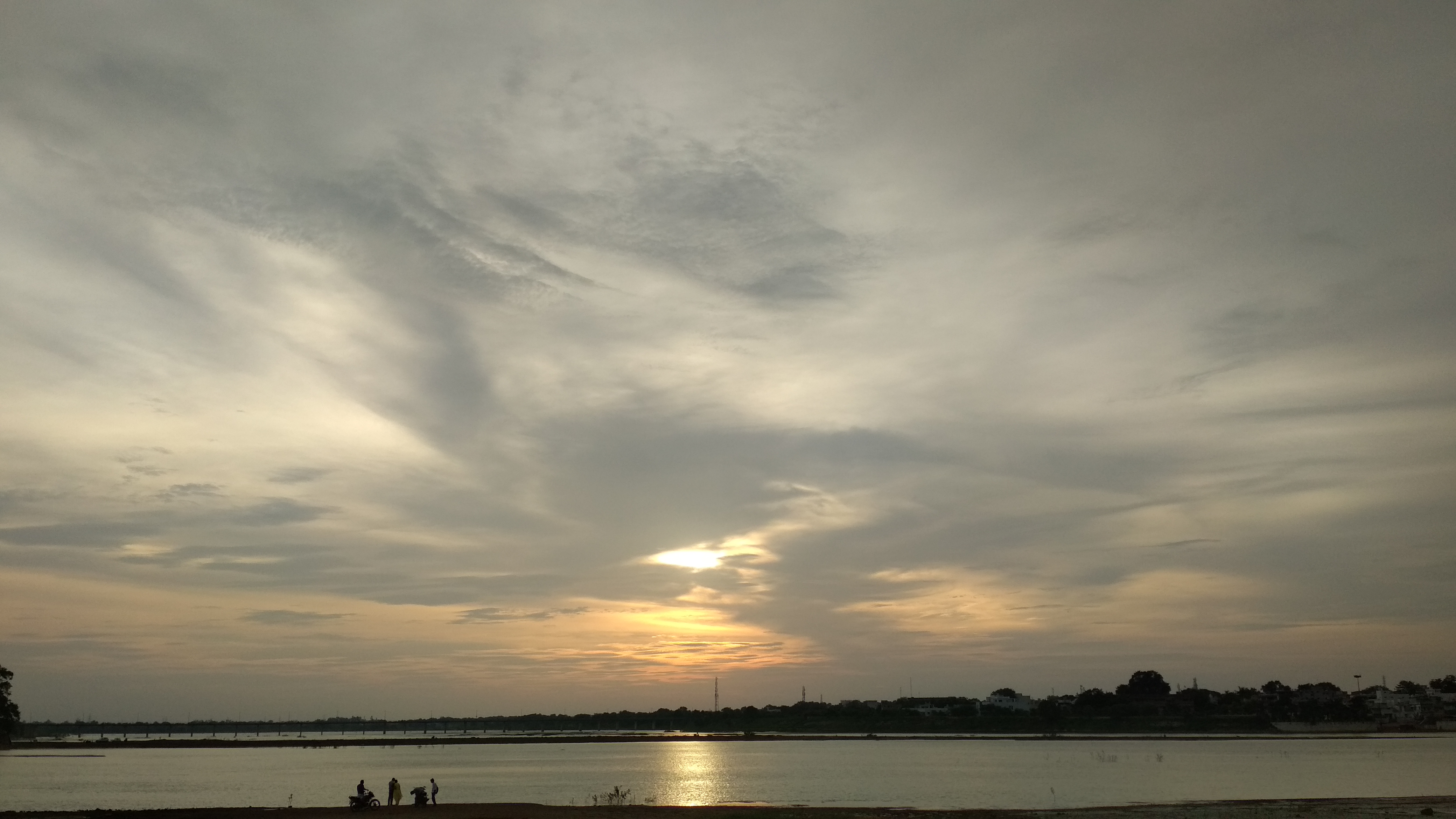 Mahanadi as seen from Rajiv Lochan Temple complex